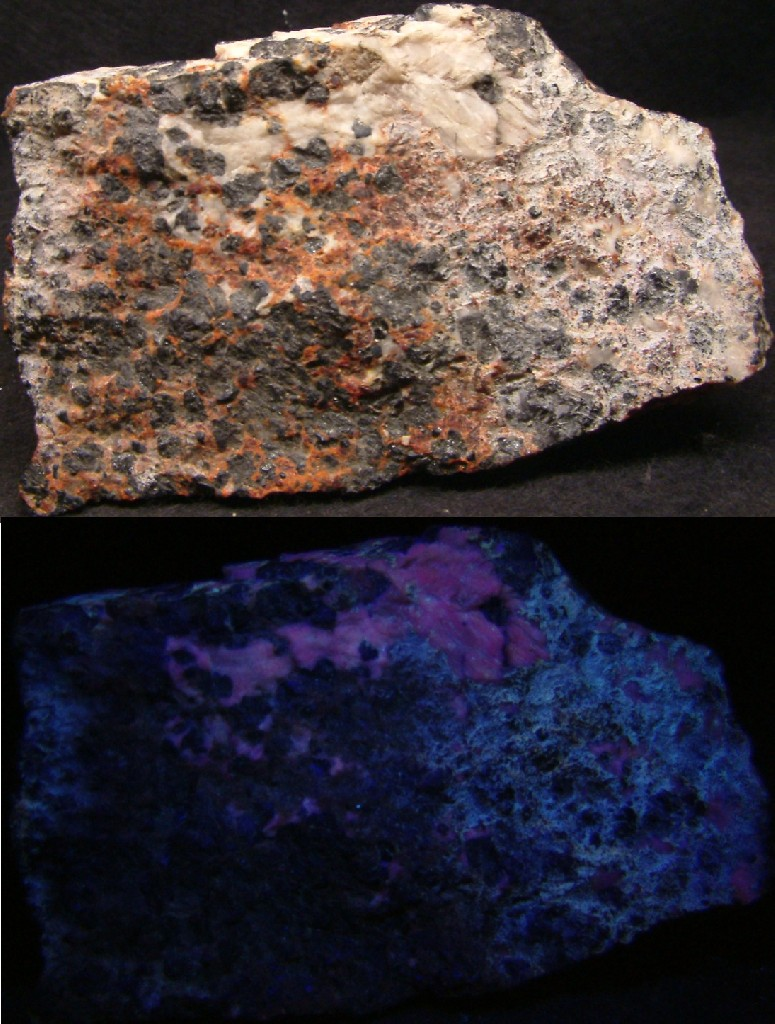 Hydrozincite and Zincite Locality: Franklin Mine, Franklin, Franklin Mining District, Sussex County, New Jersey, USA Original description: Artificial and Long Wave UV (pale blue) photos of hydrozincite. Total specimen size approximately 7.5 cm x 13 cm